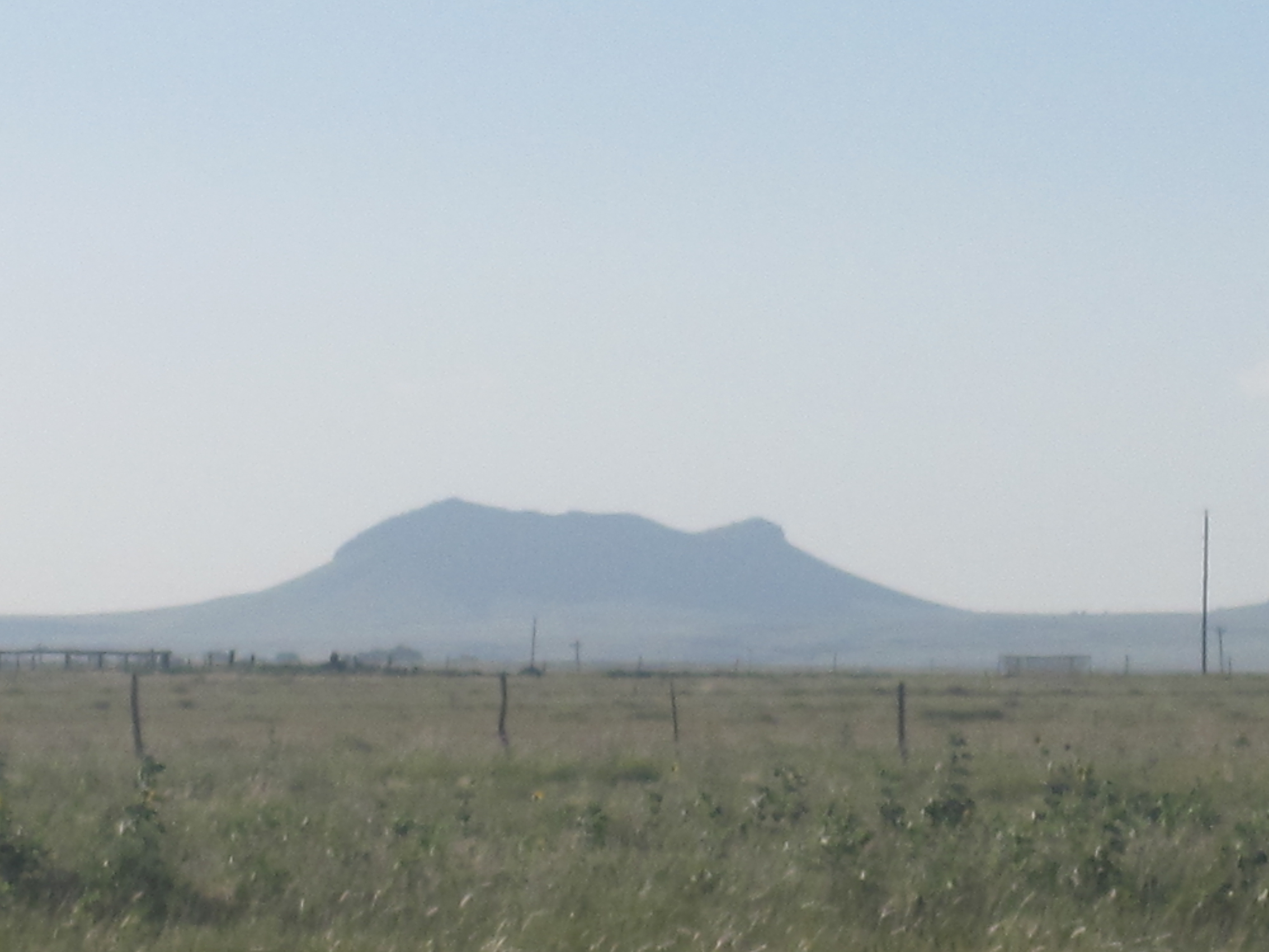 I took photo with Canon camera in Dallam County, TX.